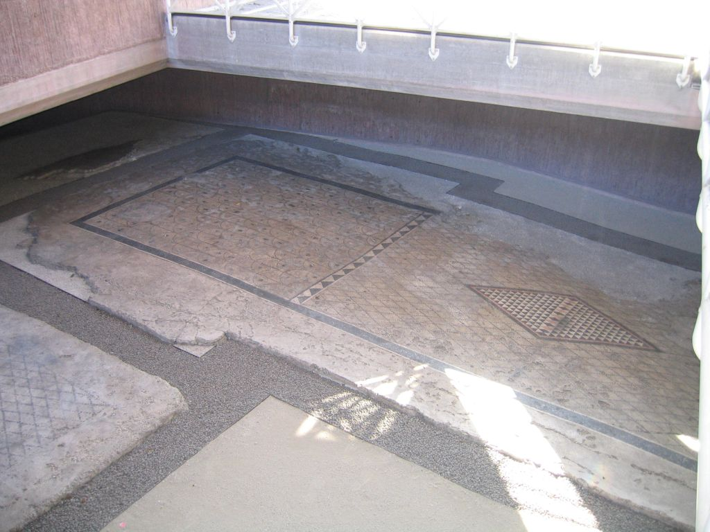 Oderzo (Treviso, Veneto, Italy). Foro Romano. Rests of an ancient villa.